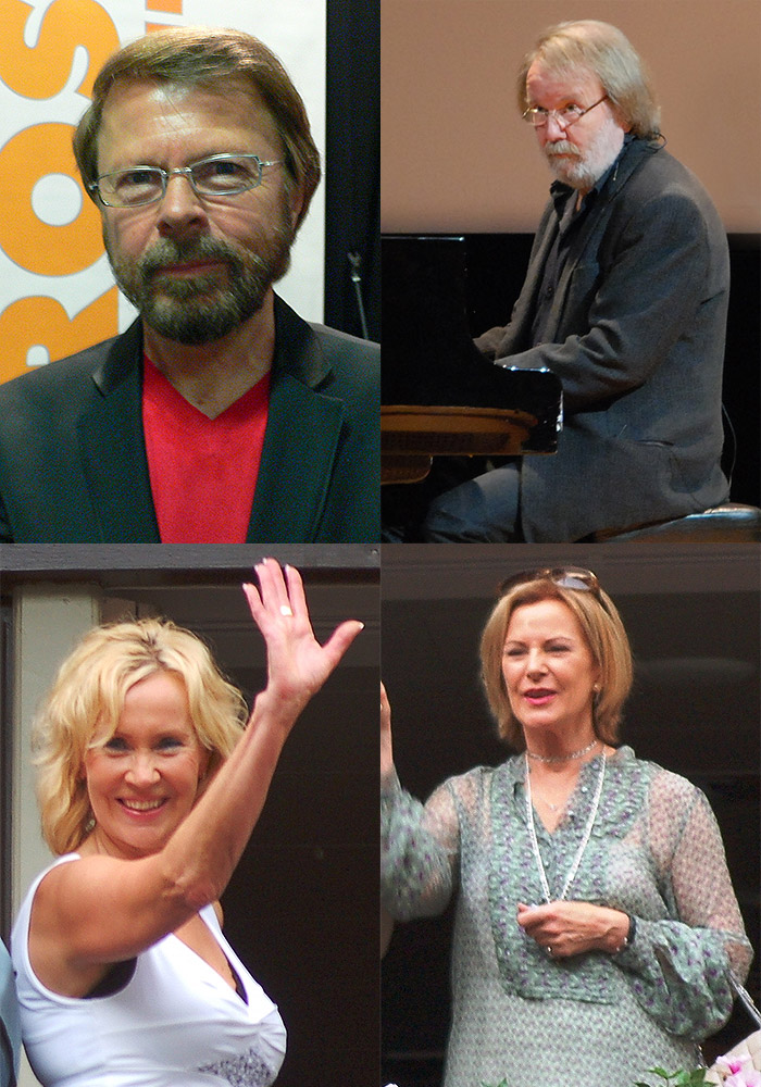 ABBA all members (montage)